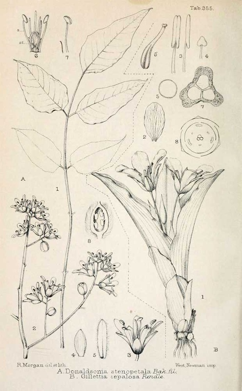 First illustration of Moringa stenopetala (Baker f.) Cufod., Moringaceae, as described by E.G. Baker in 1896